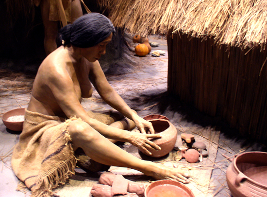 A diorama showing a Mississippian potter from the Cahokia site in Collinsville, Illinois, a Mississippian culture settlement.